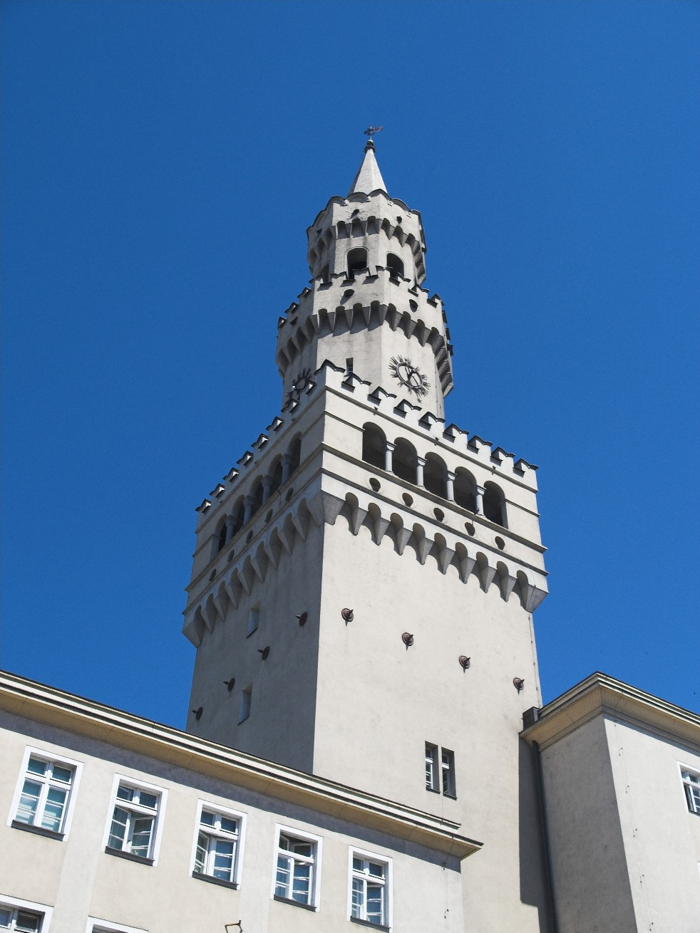 The tower of Opole's city hall